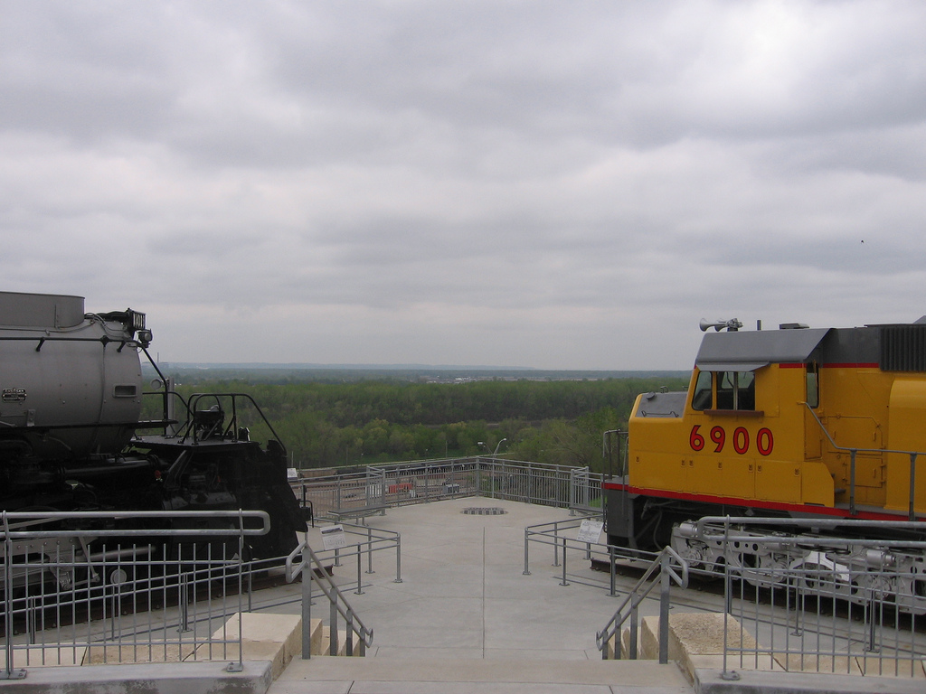 Kenefick Park in Omaha, Nebraska celebrating the trans-continental railroad and Union Pacific Railroad’s contributions to the area and the development of America. The park displays the massive Union Pacific Big Boy 4-8-8-4 steam locomotive #4023 and Union Pacific Centennial #6900 diesel-electric locomotives.